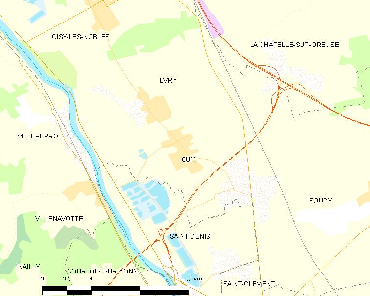 Map of French municipality Cuy